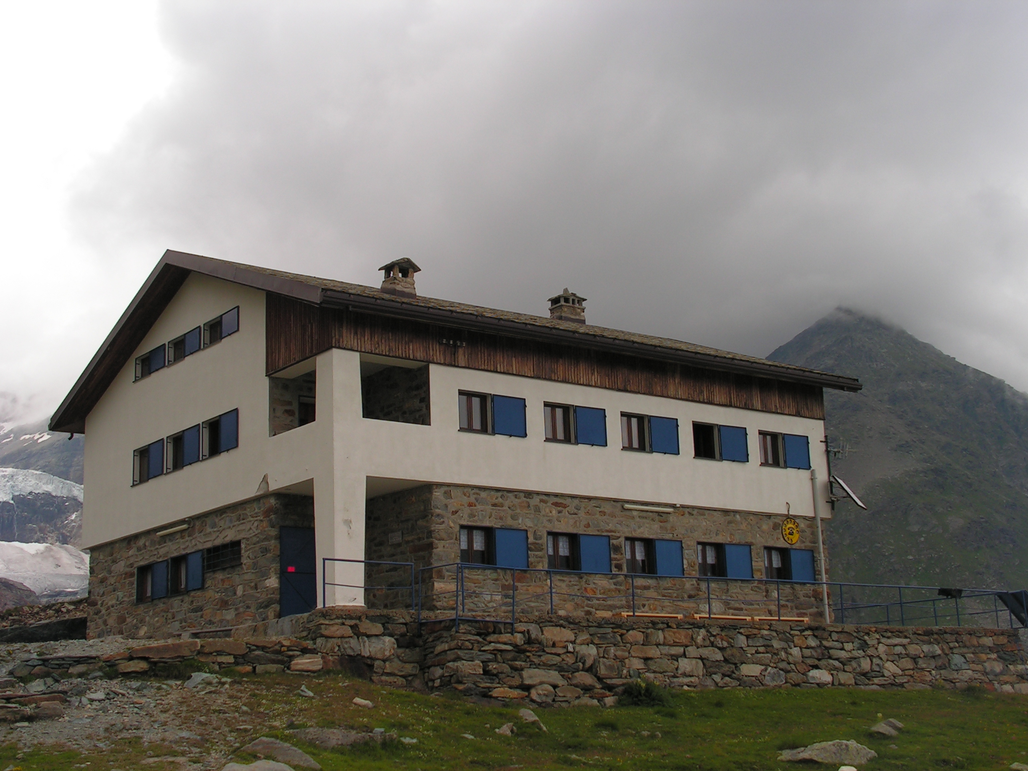 Alpine hut Roberto Bignami, 2.401 mt, Val Malenco, Italy